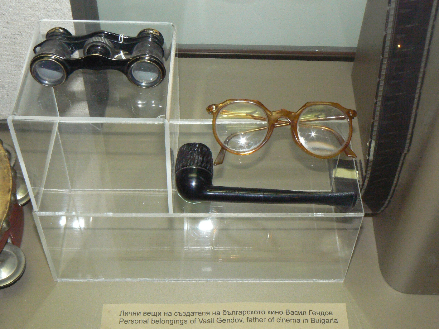 Personal belongings of the father of Bulgarian cinema Vasil Gendov. Exhibits of the National History Museum of Bulgaria